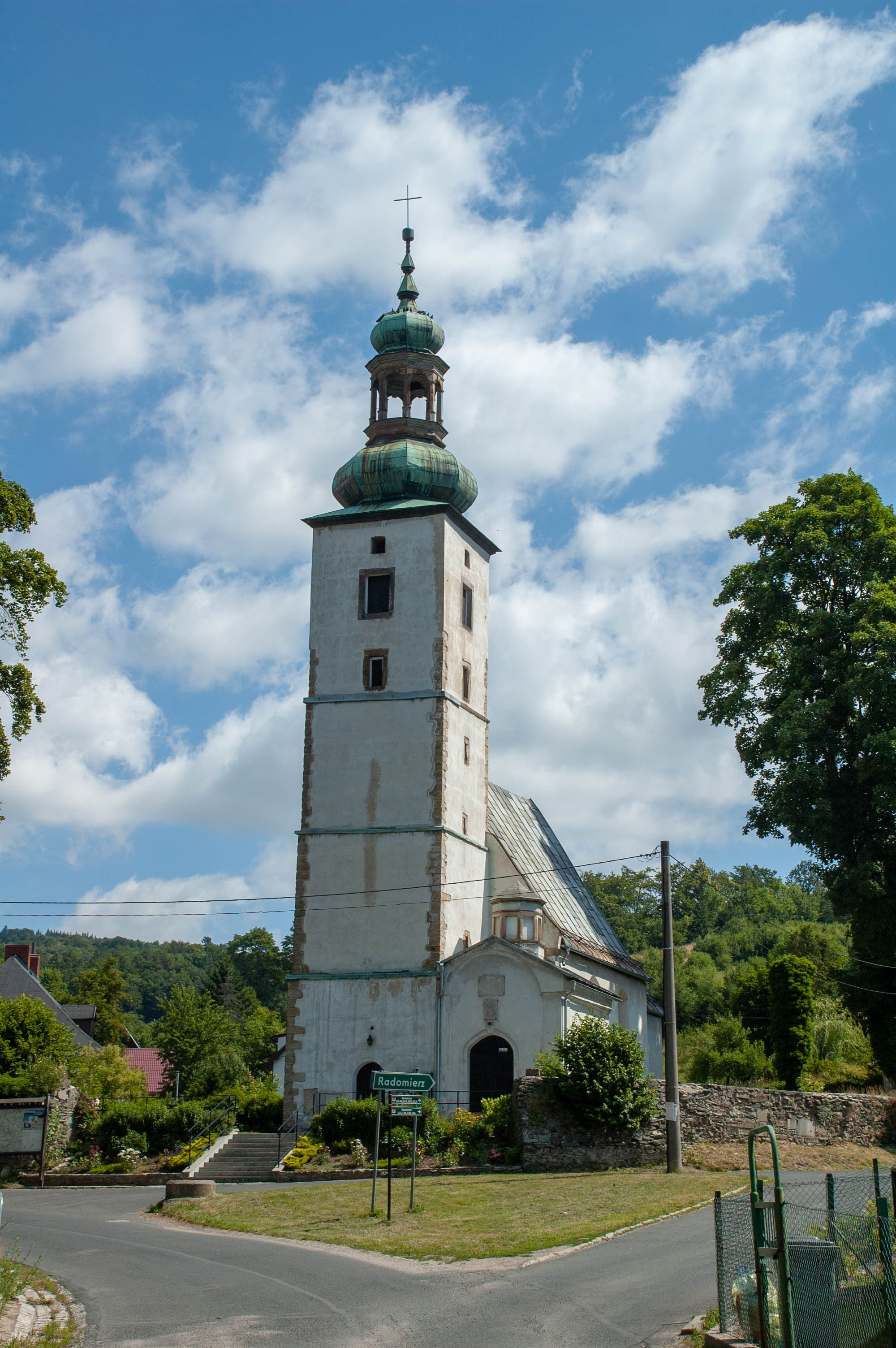 This photograph was created as a part of Wikiexpedition Lower Silesia, a project supported by Wikimedia Poland grant.